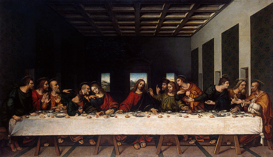 copy of Leonardo da Vinci's fresco "The Last Supper" Oil on canvas (transferred from panel). 77x132 cm , The State Hermitage Museum